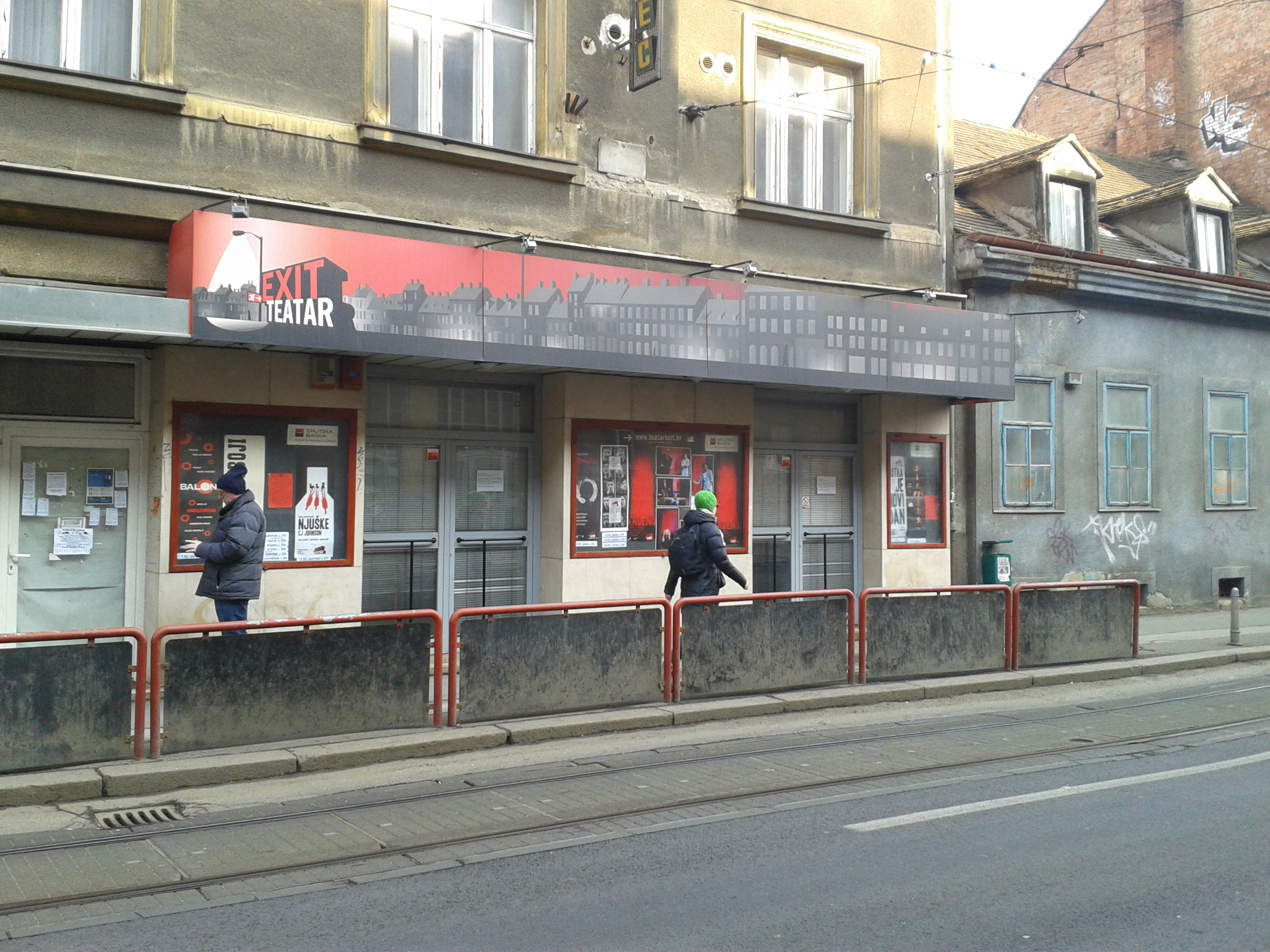 EXIT Theatre in February 2015.